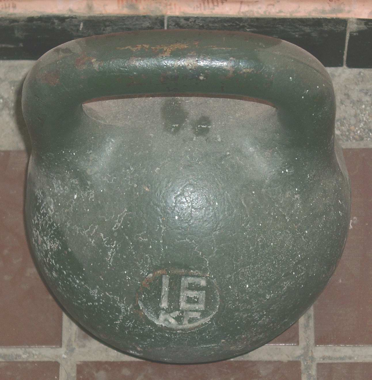 Soviet Kettlebell (mass is 16 kg)